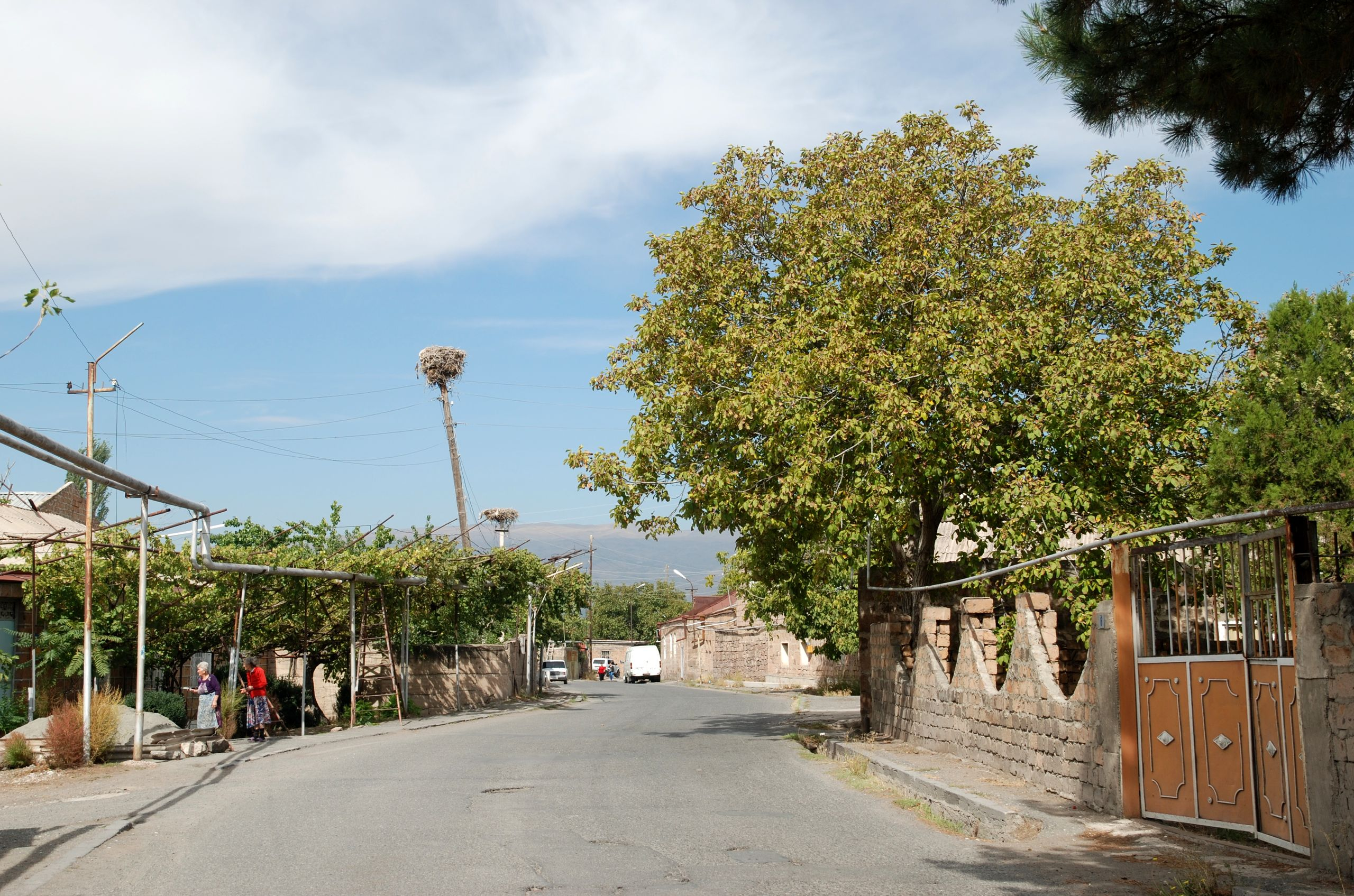 Oshakan village